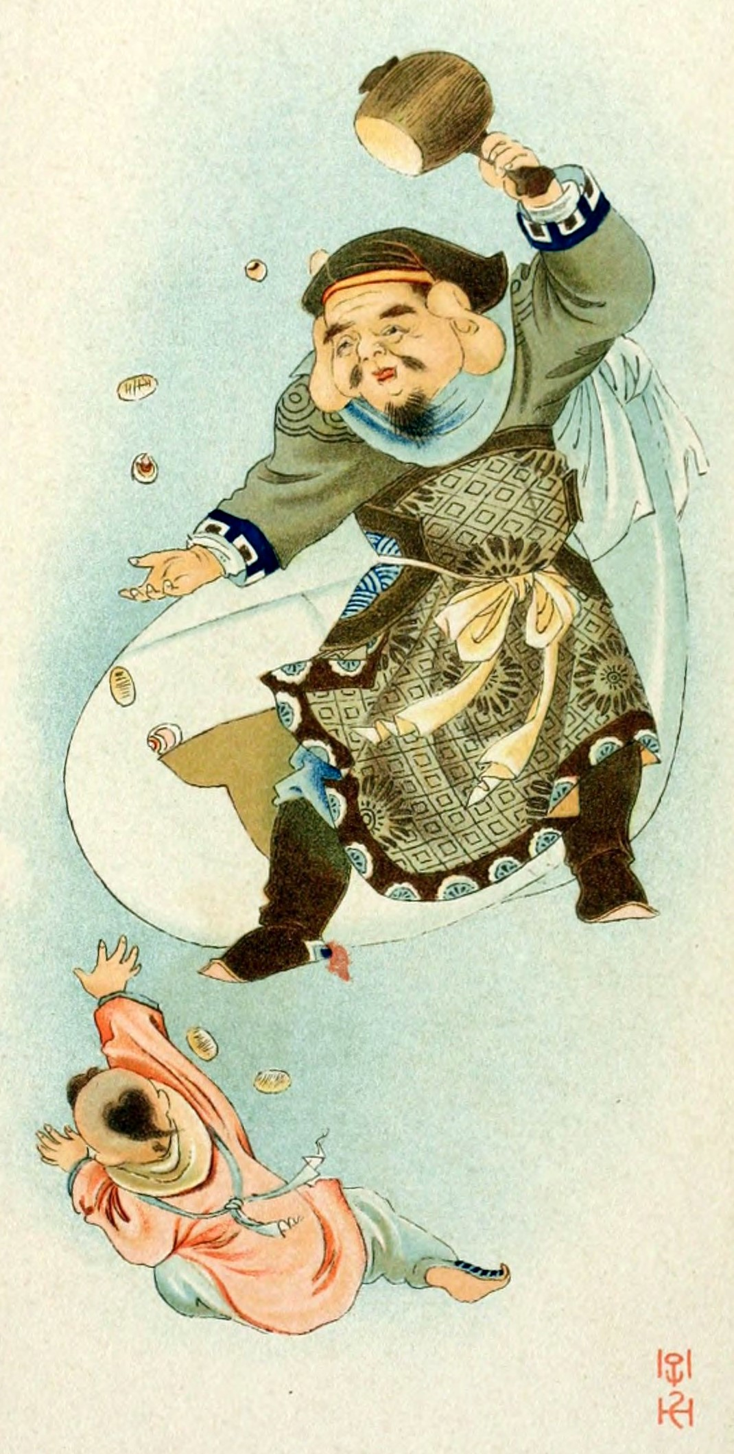 Daikokuten, from Mythological Japan : the symbolisms of mythology in relation to Japanese art, with illustrations drawn in Japan, by native artists (1902)